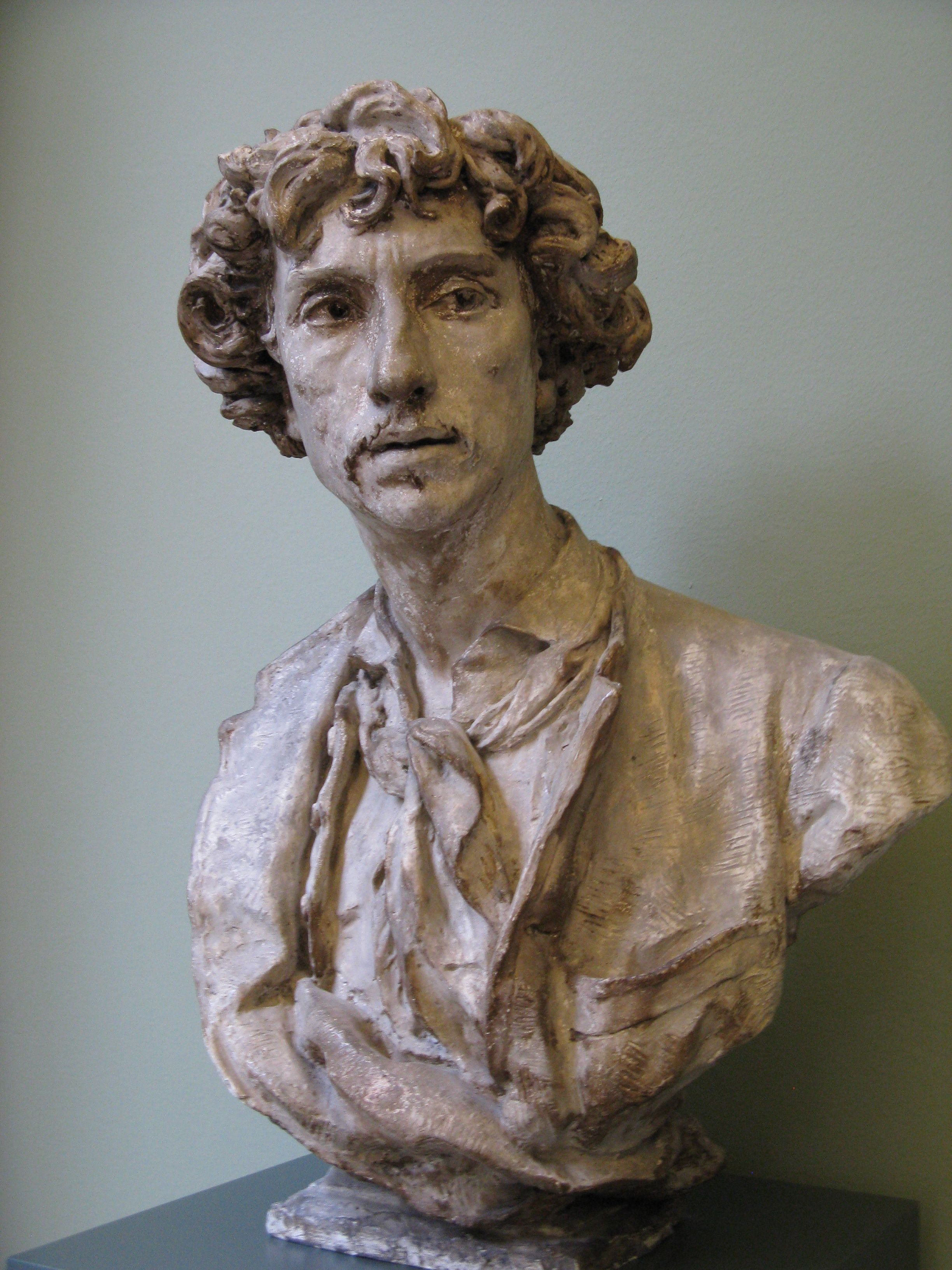 Charles Garnier, architect of the Palais Garnier in Paris, plaster bust (68 cm high) created by Jean-Baptiste Carpeaux in 1869, possibly as the model for the galvanoplastic bronze bust (executed by Christofle), which is on display in the Grand Foyer of the Palais Garnier. This plaster version , located at Ny Carlsberg Glyptotek in Copenhagen, was obtained from Amélie Carpeaux, the sculptor's wife.[1][2]